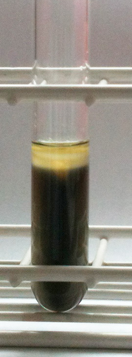 Cosenzaea myxofaciens (formerly classified as Proteus myxofaciens) in SIM agar, showing a positive result for H2S production, a negative result for the indole test (after Kovac's reagent has been added), and a positive result for motility.